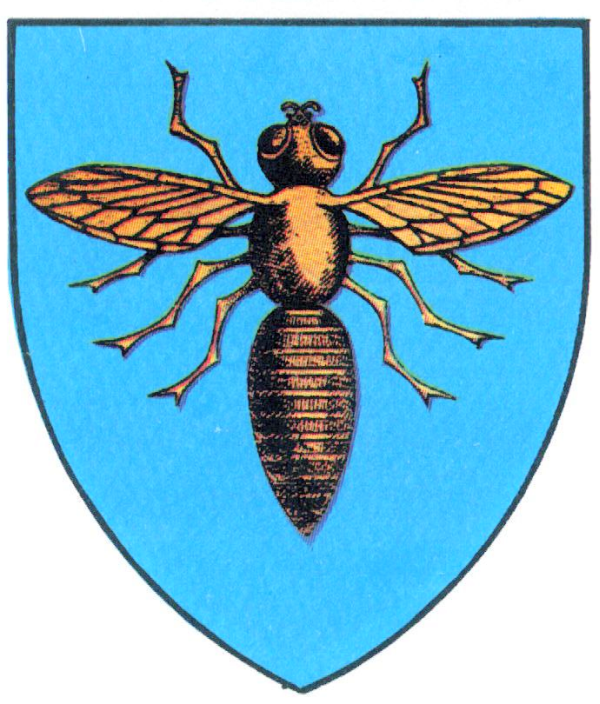 Interwar coat of arms of Mehedinți County, Kingdom of Romania.